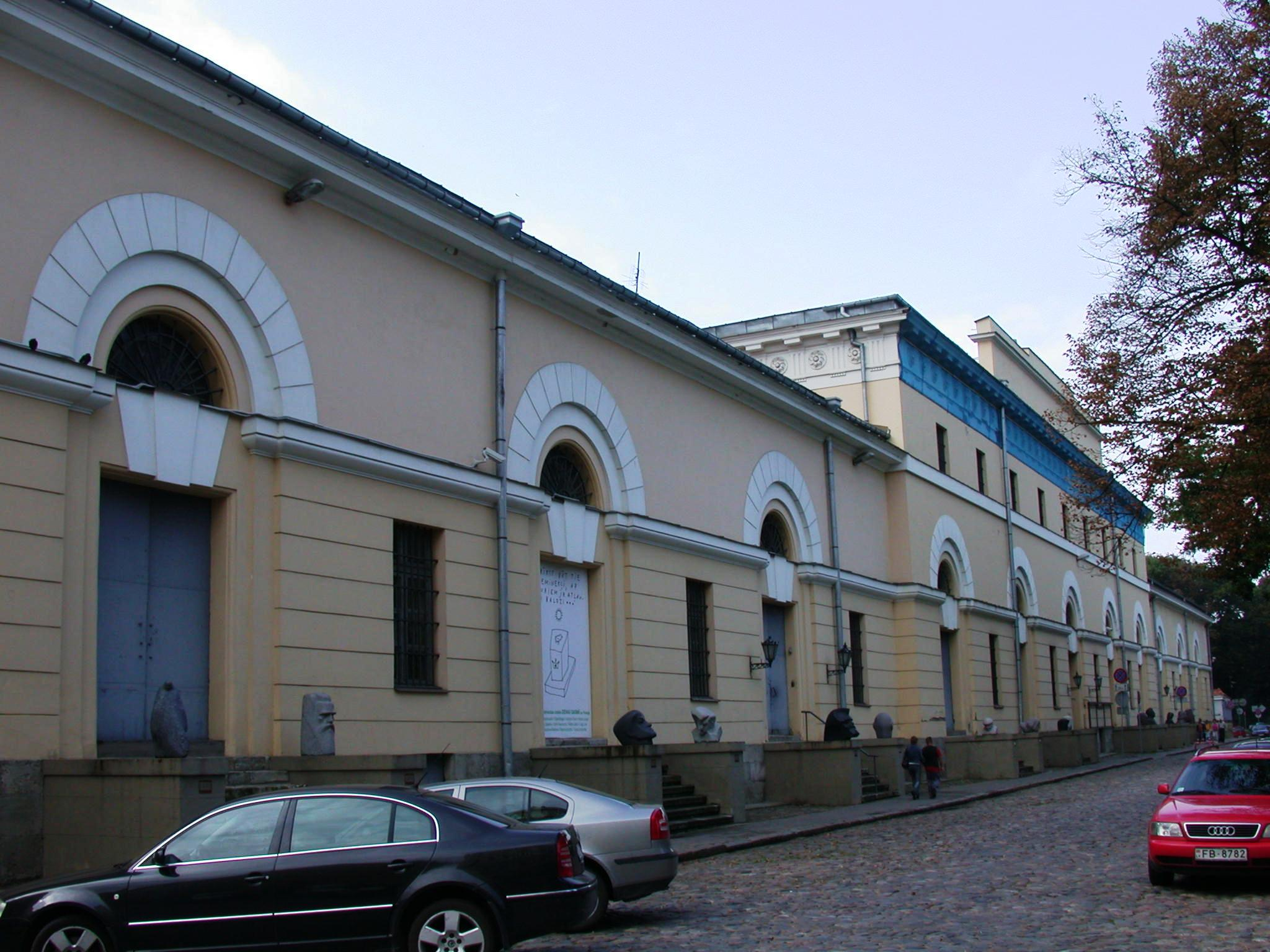 The arsenal, The old arsenal, Riga (city)